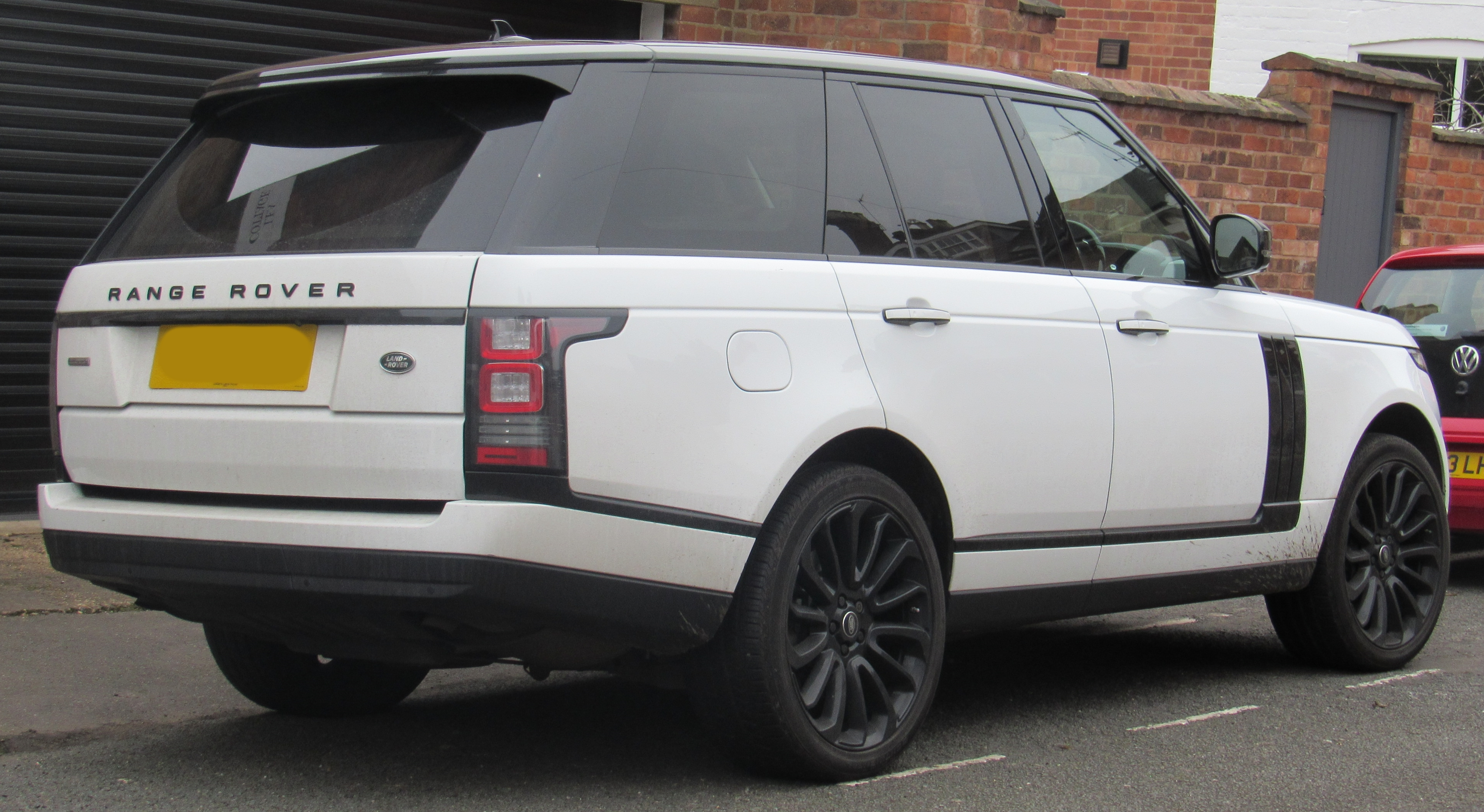 2014 Land Rover Range Rover Autobiography 5.0 Rear Taken in Leamington Spa